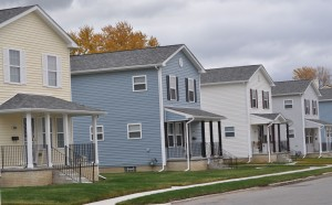 habitat houses in MorningSide, Detroit